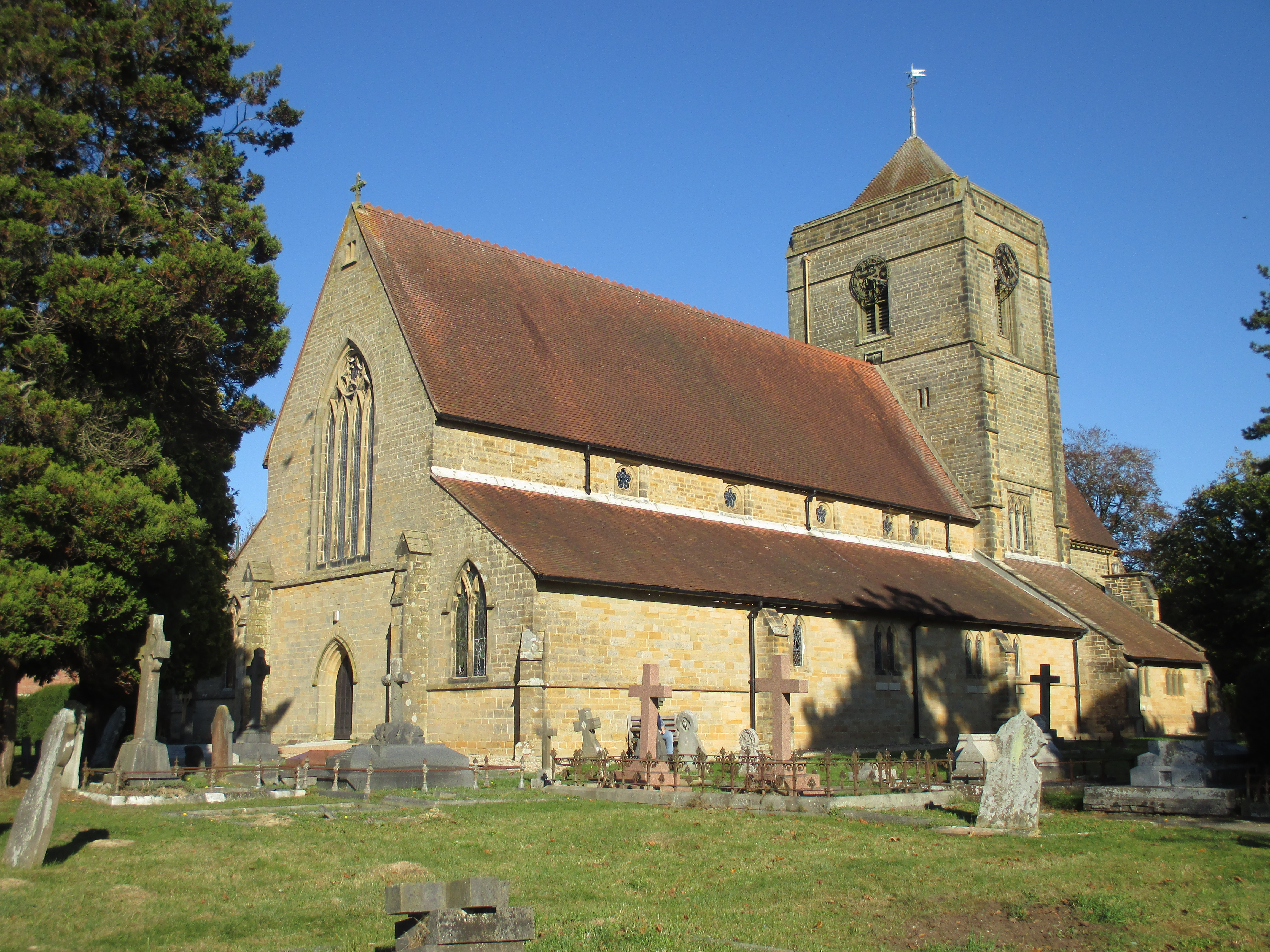 St Wilfrid's Church, Haywards Heath, West Sussex, seen from the south-west